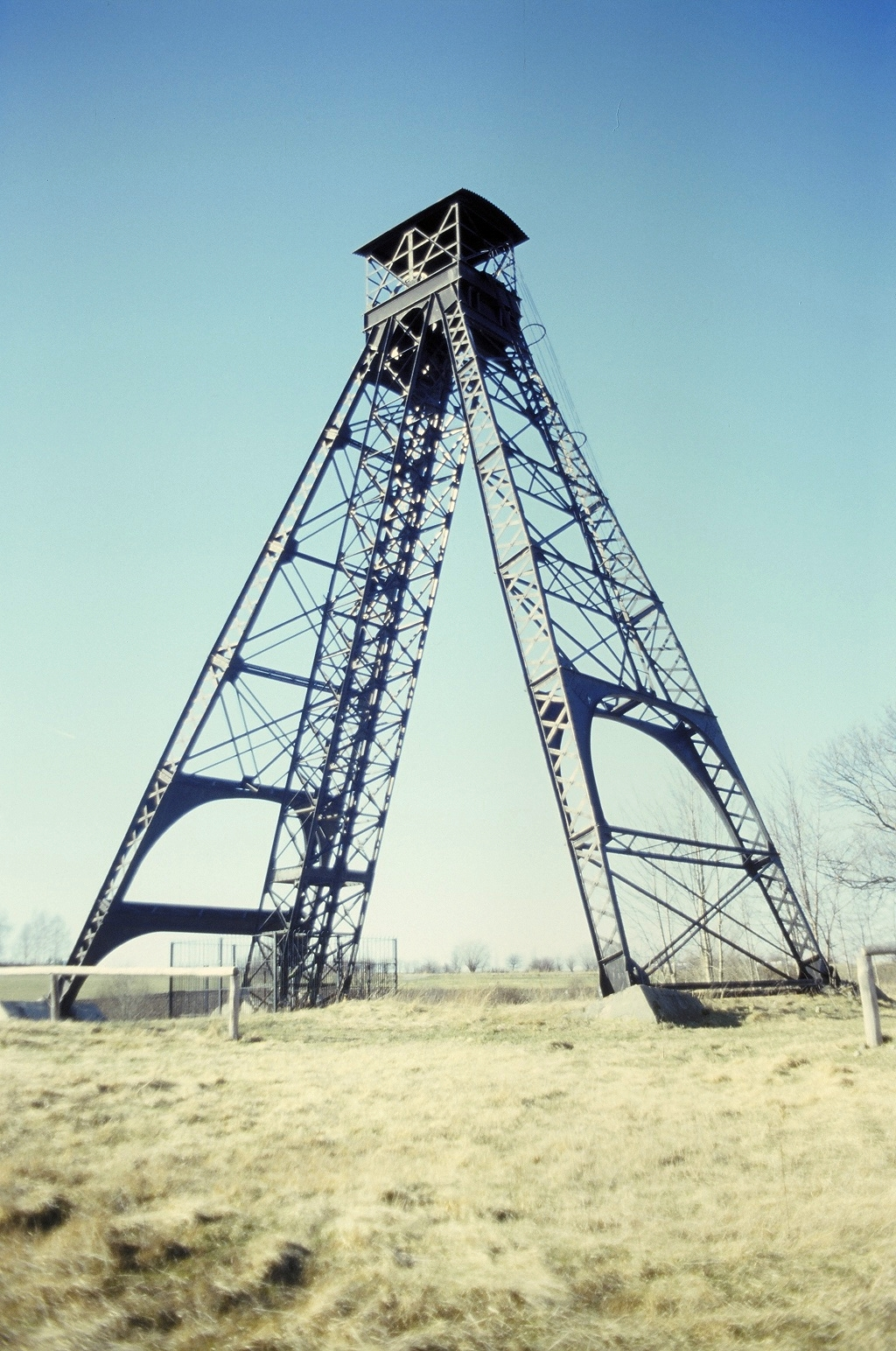 Headframe of the Tuerkschacht in Zschorlau near Schneeberg, Erzgebirge Mts, Germany